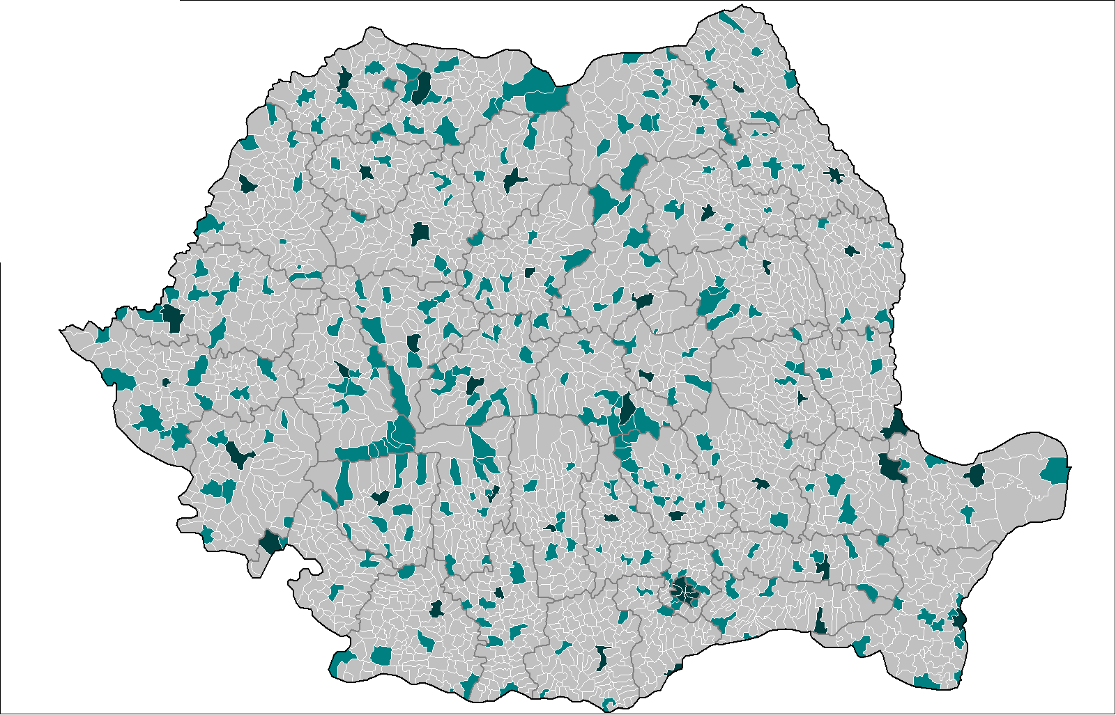 Map of the cities and towns of Romania Municipality City/Town